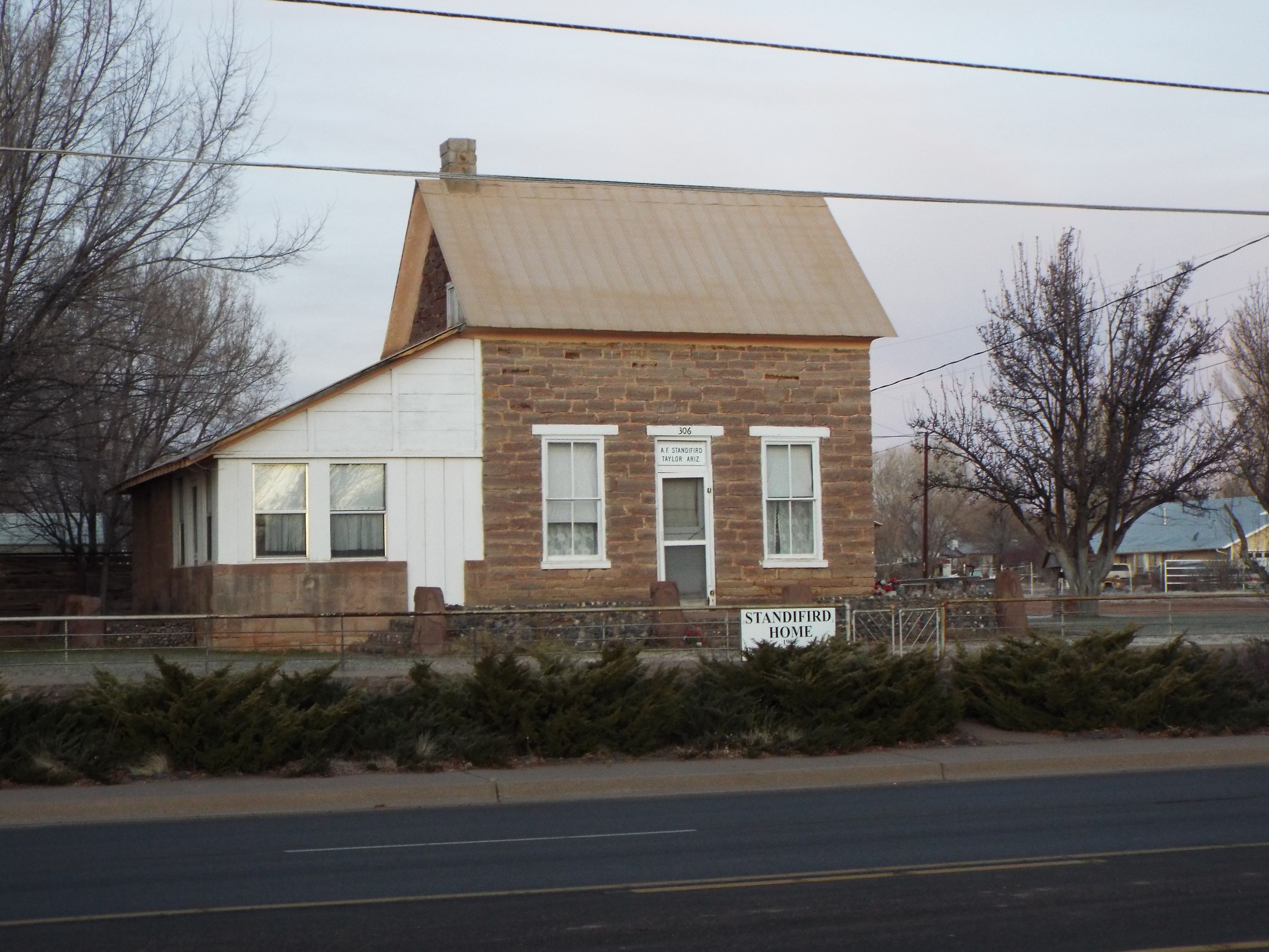 The NRHP Aguila Standifird House-1890 in Taylor, Arizona